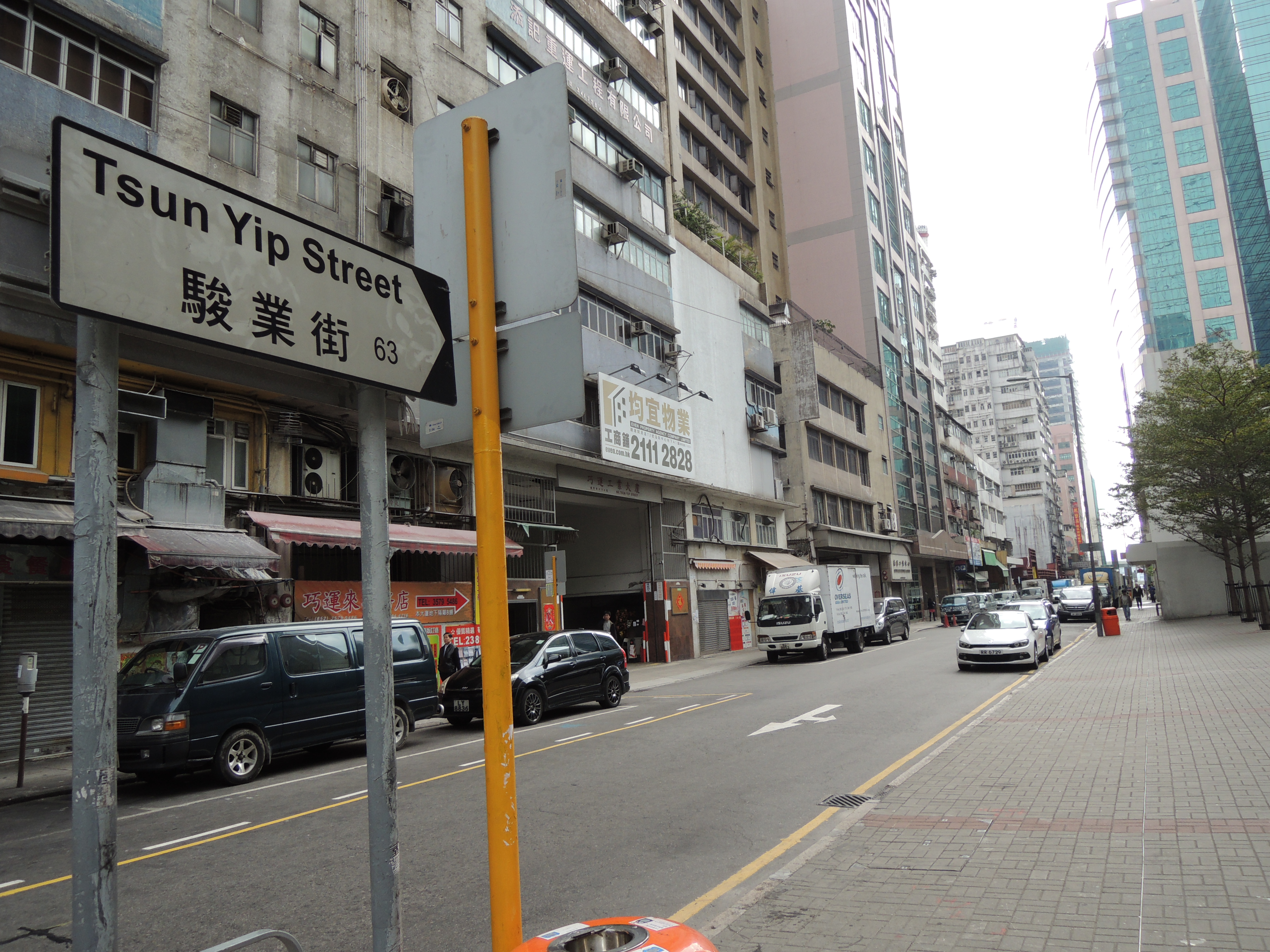 Tsun Yip Street (Kwun Tong, Kowloon, Hong Kong) 中文（香港）: 駿業街 (香港九龍觀塘)